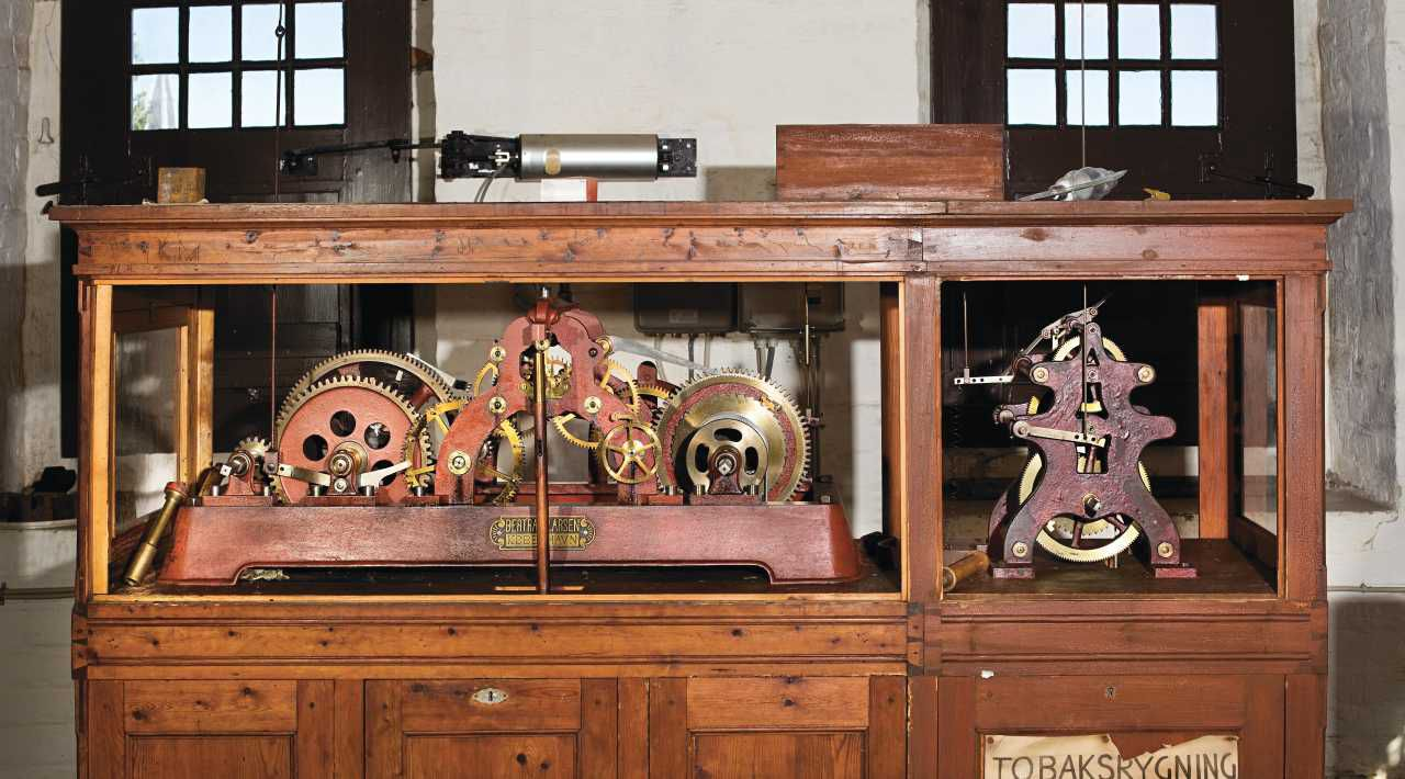 Tower clock in St. Nicolas' Church in Svendborg made by Bertram Larsen in 1894